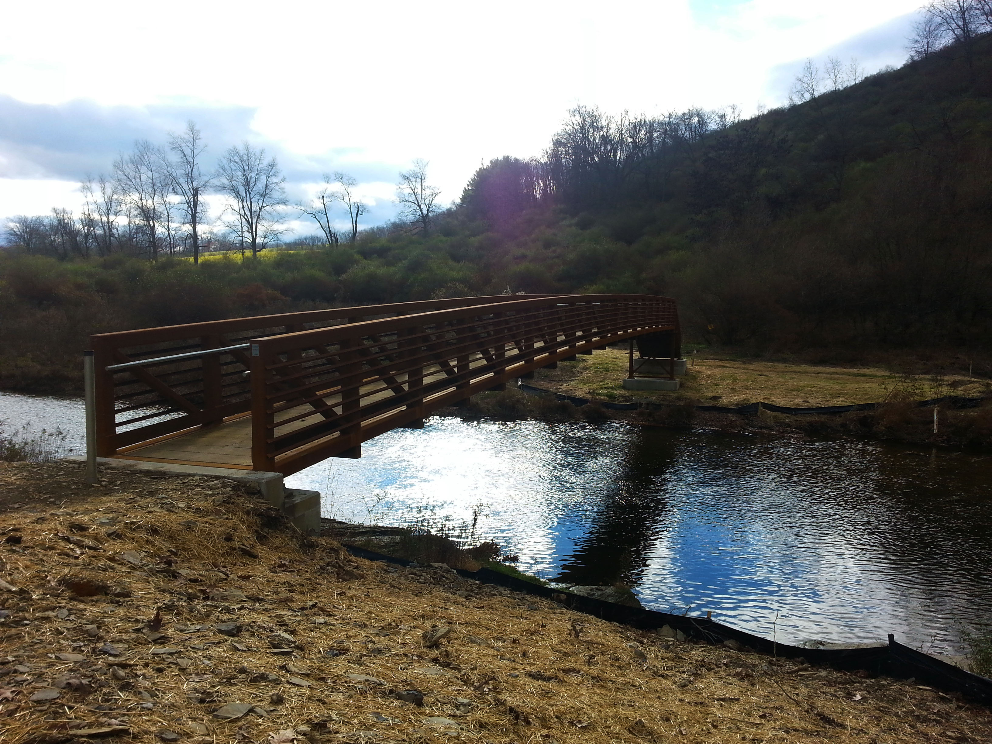 Bridge carrying the Trexler Border Trail over the Jordan Creek in the Trexler Nature Preserve